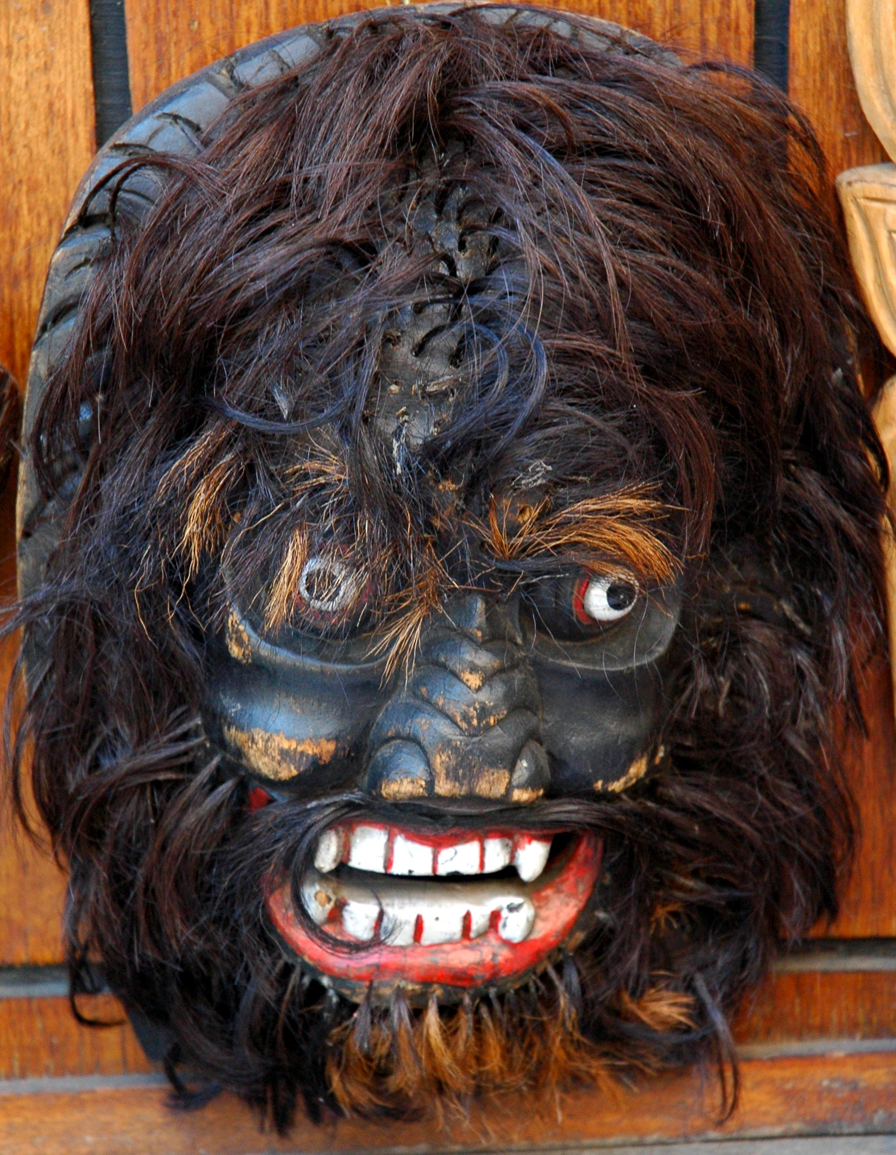 Yeti Mask in Kathmandu